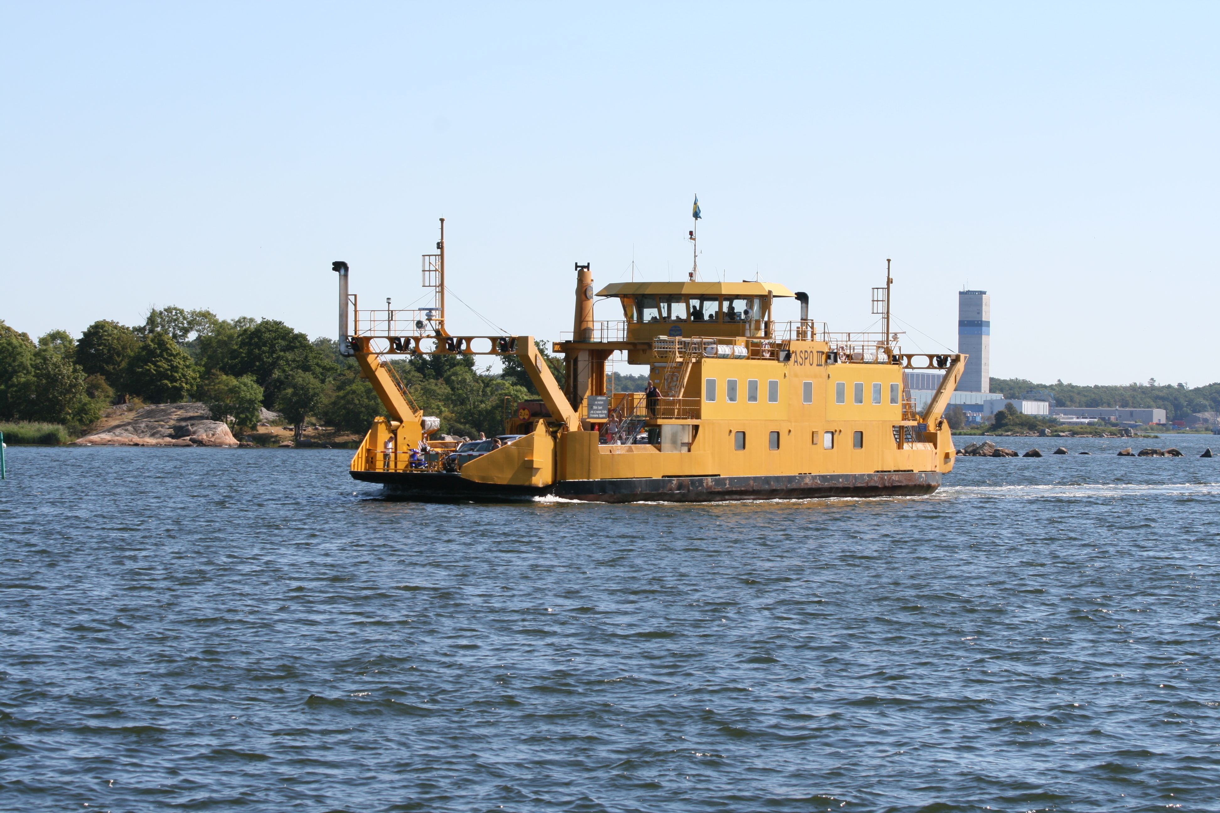 The car ferry Aspö III as it's closing in on the port of Karlskrona, Sweden. The ferry takes cars and passengers between Karlskrona and the island of Aspö.